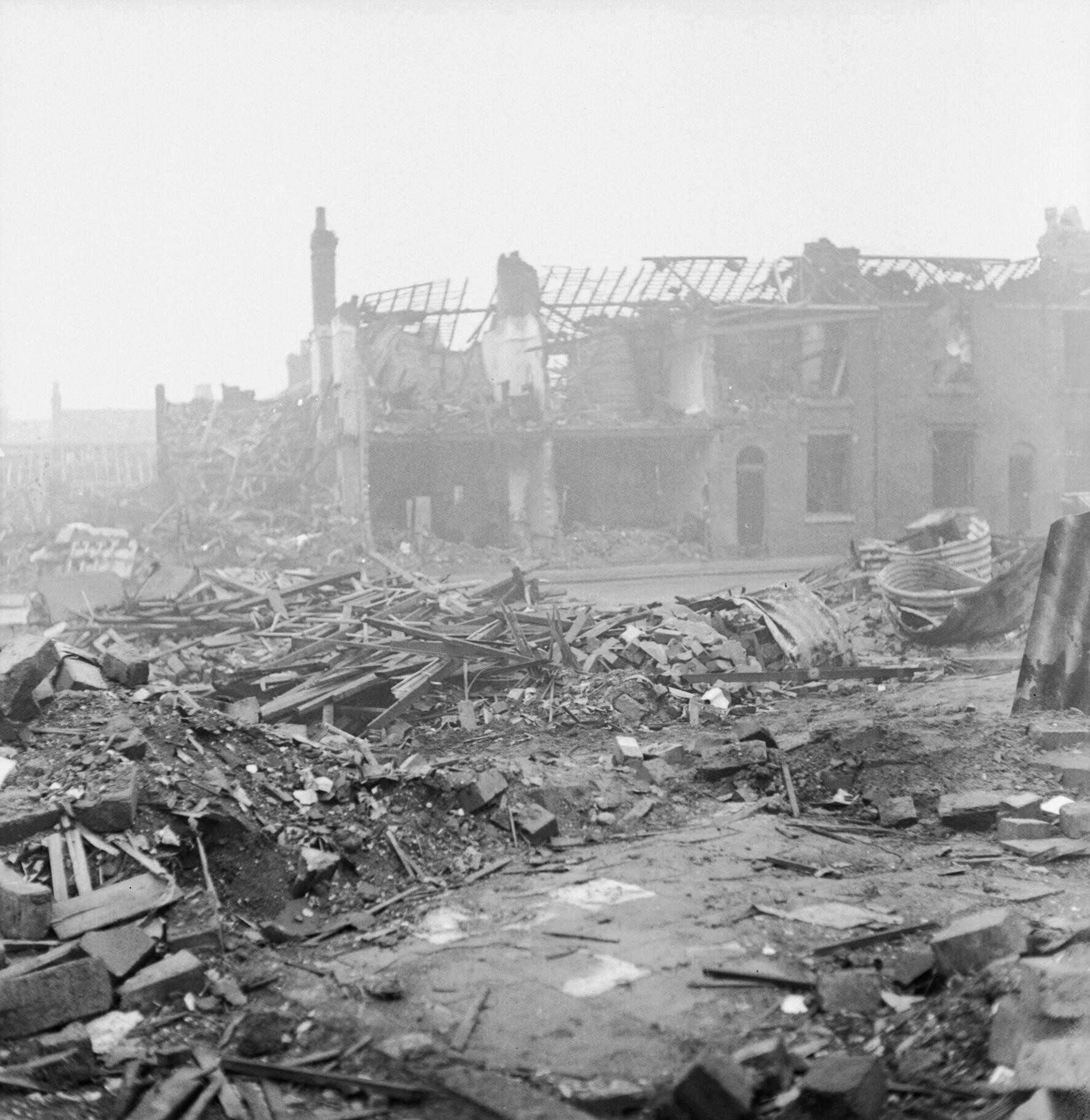 Bomb Damage in Birmingham, England, C 1940 Although some debris has been cleared on this site on James Street, Aston Newtown, Birmingham, a large pile of timbers and some brick rubble can be clearly seen. Also visible to the right of the photograph are the twisted remains of several Anderson shelters. In the background, two of the terraced houses that are still standing have had the front wall stripped away by the blast, revealing the interior walls and floors.